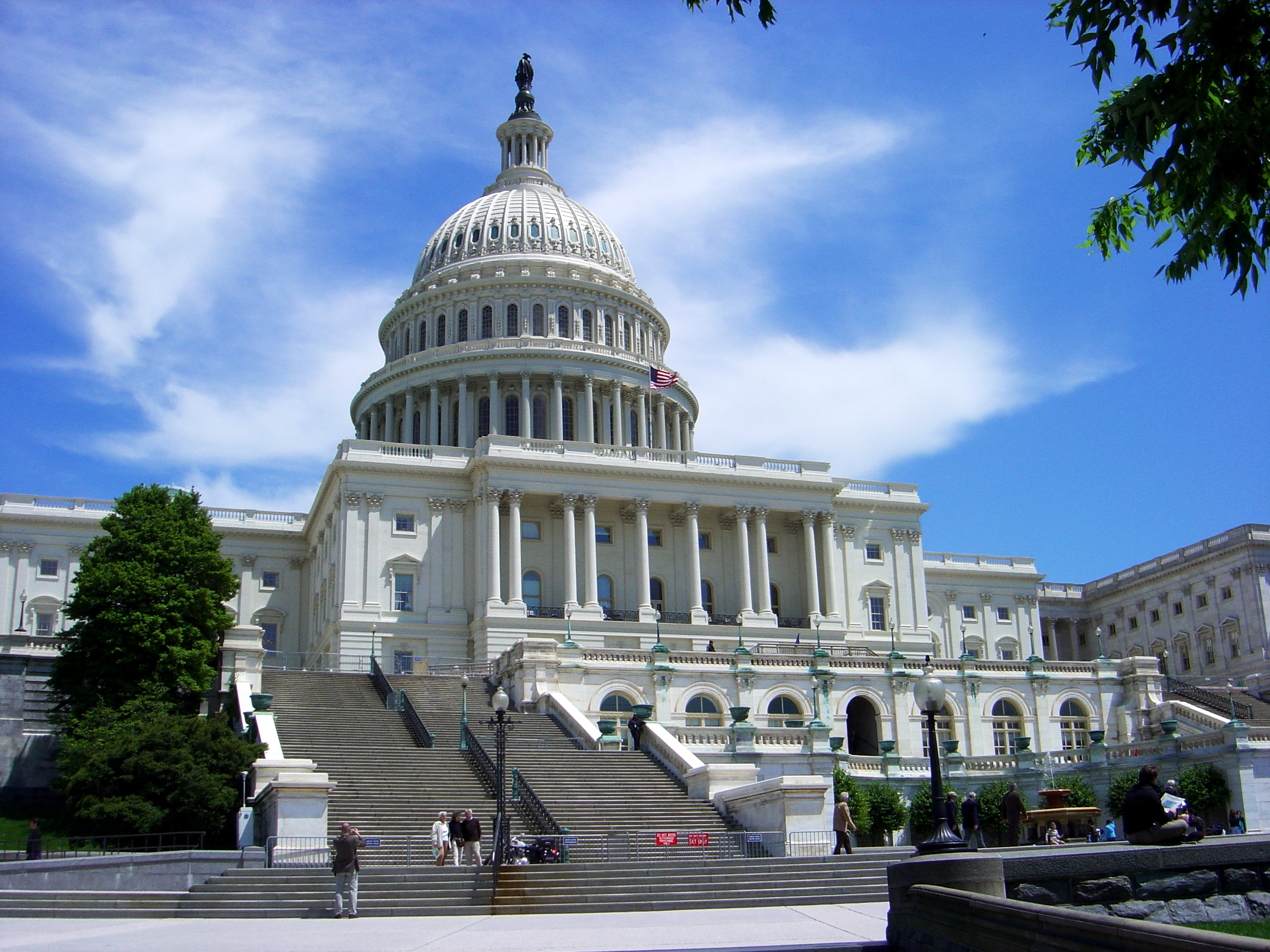 United States Capitol in daylight